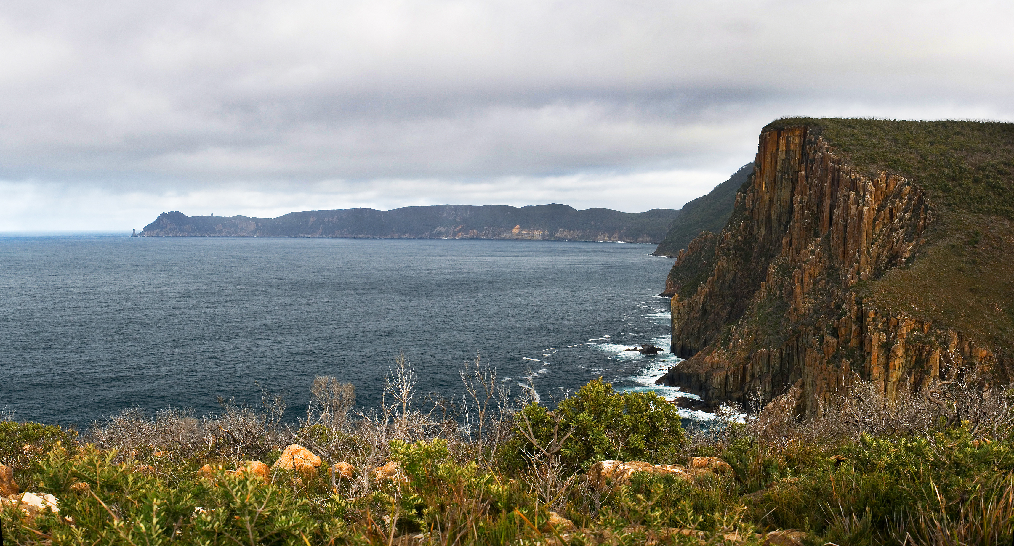 Cape Pillar as seen from the Cape Hauy track. Tasmania, Australia.